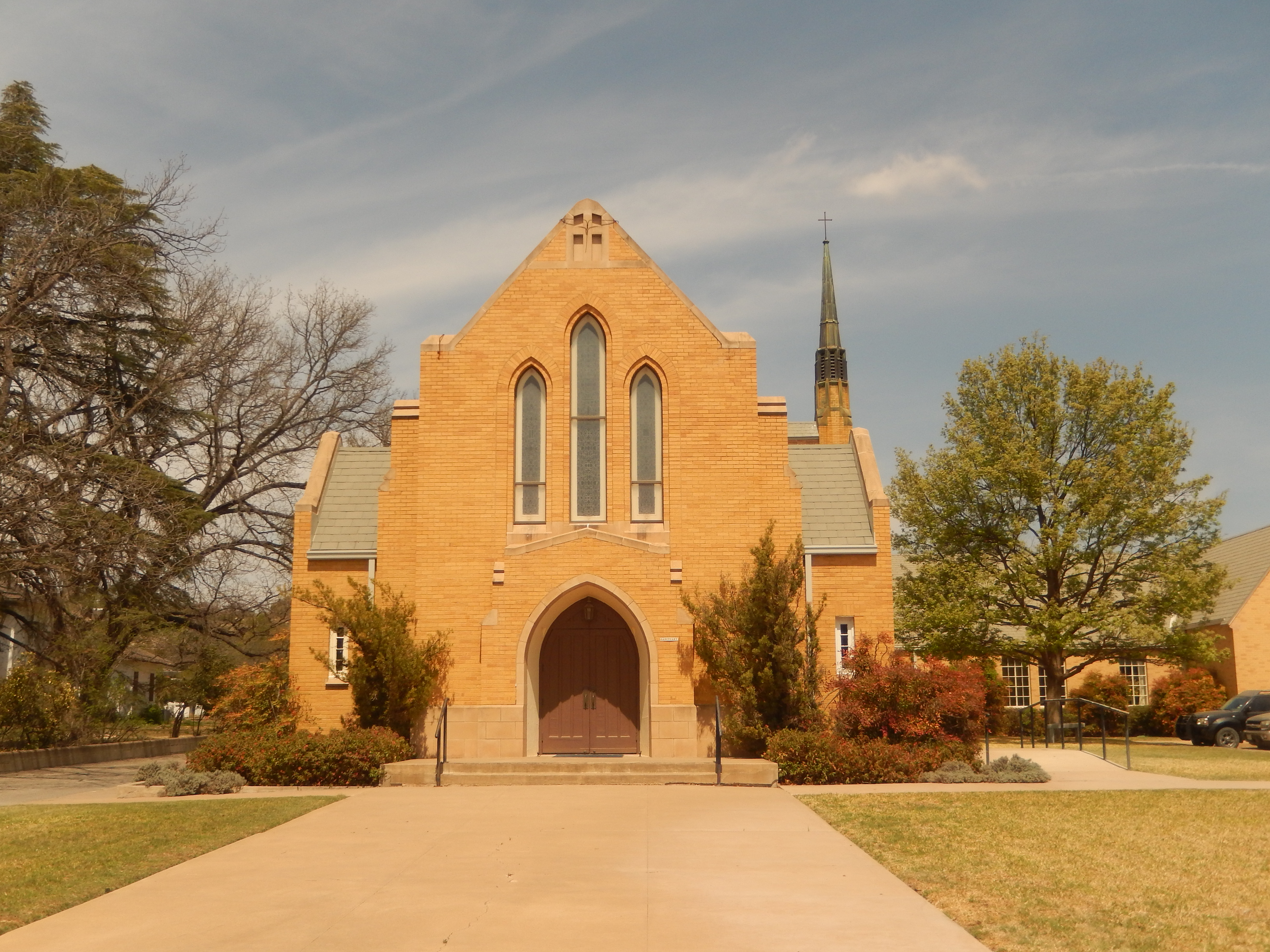 I took photo with Nikon camera of First United Methodist Church in Ozona, TX.